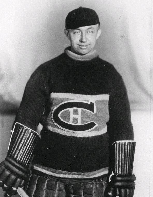 George Hainsworth, goaltender of the Montreal Canadiens of theNHL from 1926 to 1933 and again from 1936 to 1937. Photo circa 1926–1937.